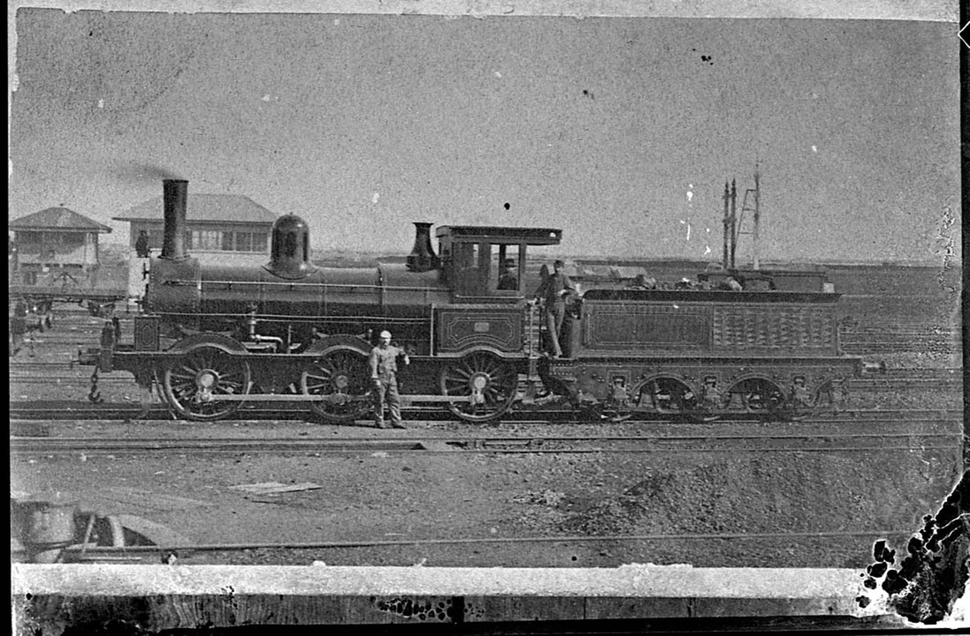 Victorian Railways' Beyer Peacock Q class steam locomotive, ca. 1870 - copy photograph (1940s?)